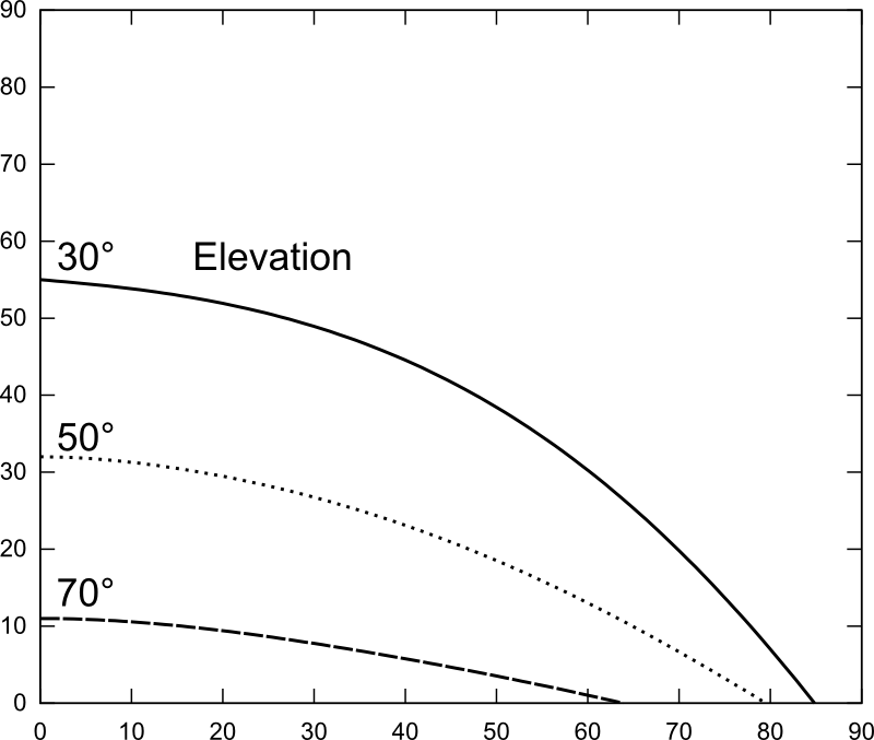 Geosatellite orbit, seen by an observer at 30°, 50° and 70° latitude.